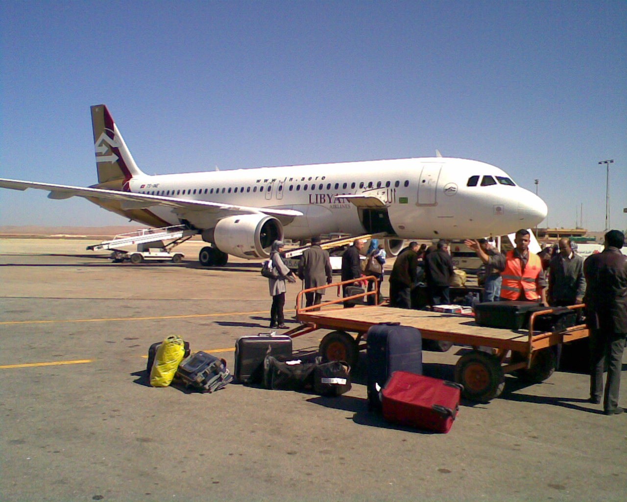 The new style of Libyan Airlines.